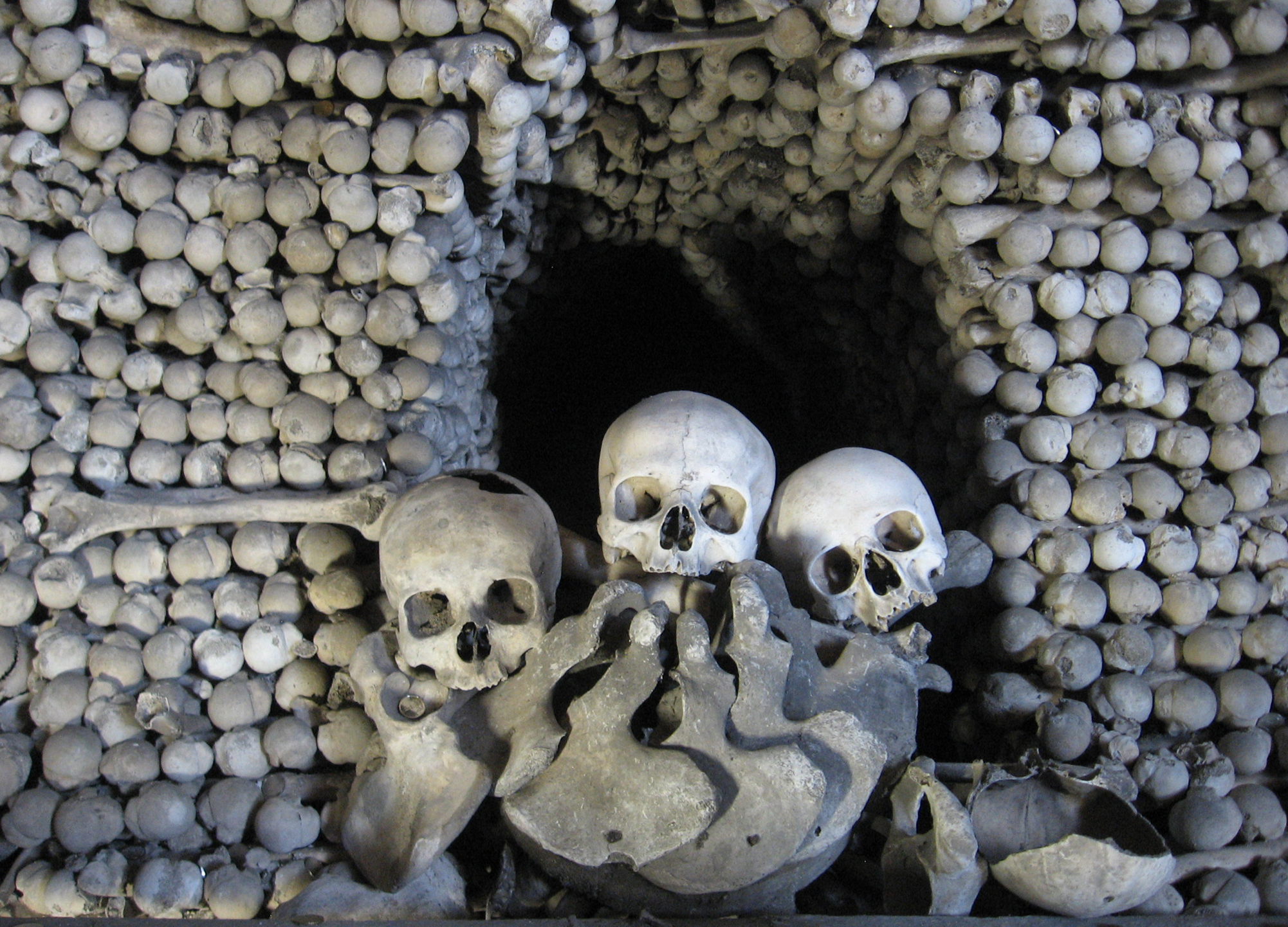 Bones inside the ossuary below the Cemetery Church of All Saints in Sedlec, a suburb of Kutná Hora in the Czech Republic. The ossuary is estimated to contain skeletons of between 40,000 and 70,000 people.